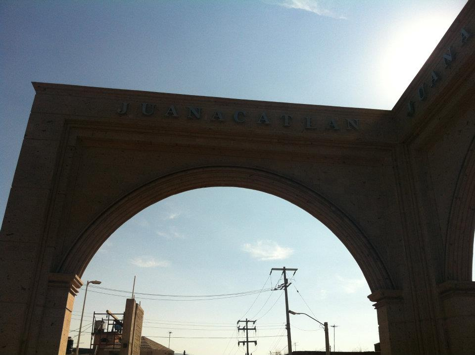 juanacatlan